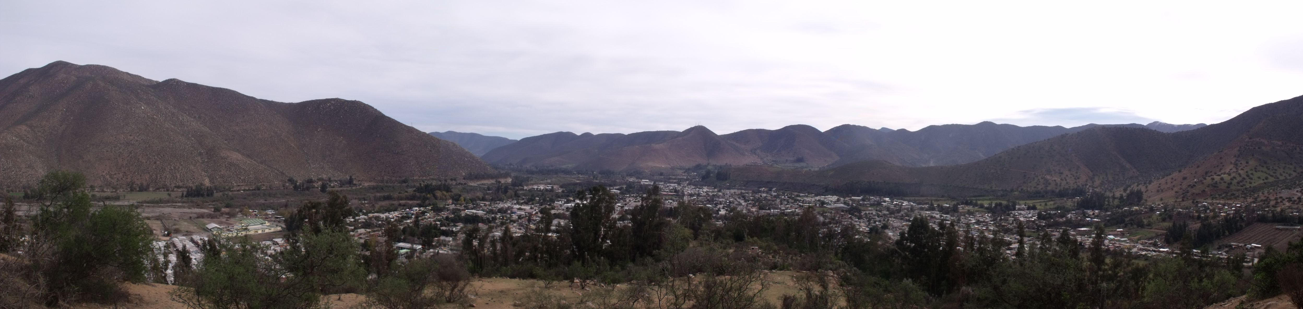 Panorama Salamanca, Chile